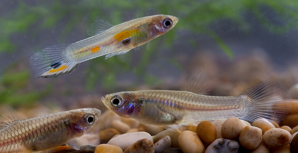 Male and female Wild Form guppies (Poecilia reticulata)